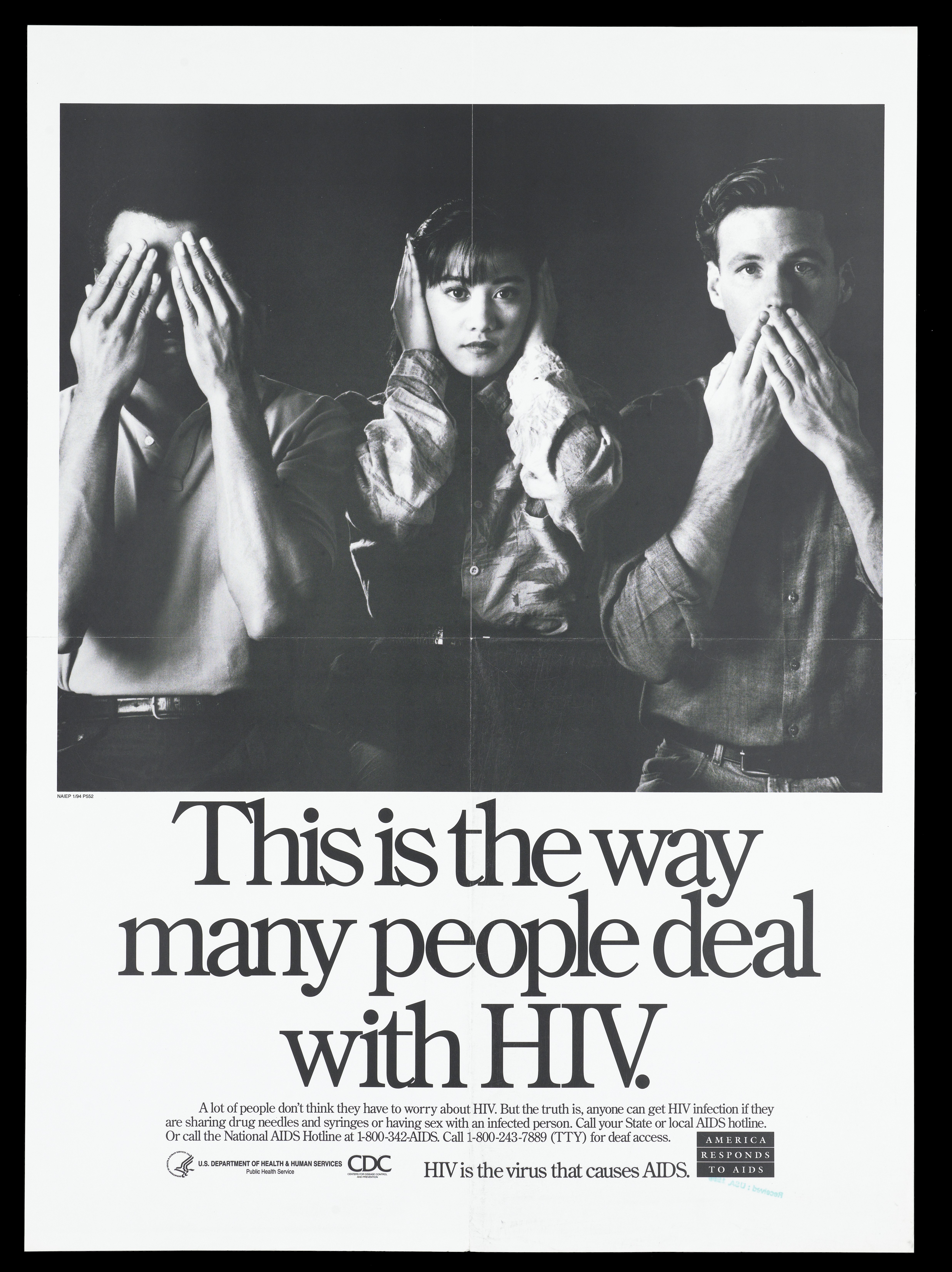 A man with his hands over his face, a woman with her hands covering her ears and another man with his hands covering his mouth with a message about how HIV is communicated; a poster from the America responds to Aids advertising campaign. Black and white lithograph. Iconographic Collections Keywords: AIDS; United States. Dept. of Health and Human Services.; AIDS Posters; Market; AIDS poster